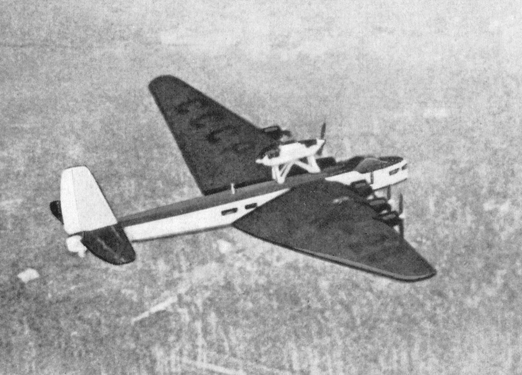 USSR pass. Airplane Tupolew / Tupolev ANT-20. Dead in 1935